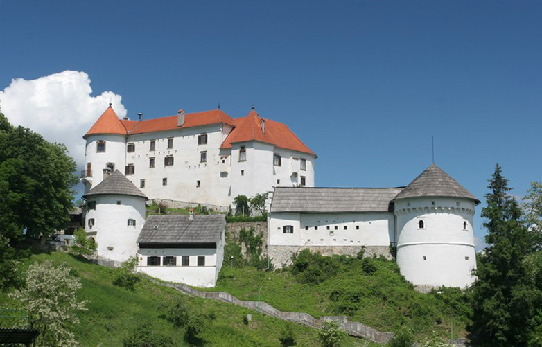 Velenje castle (Velenje, Slovenia) with castle walls